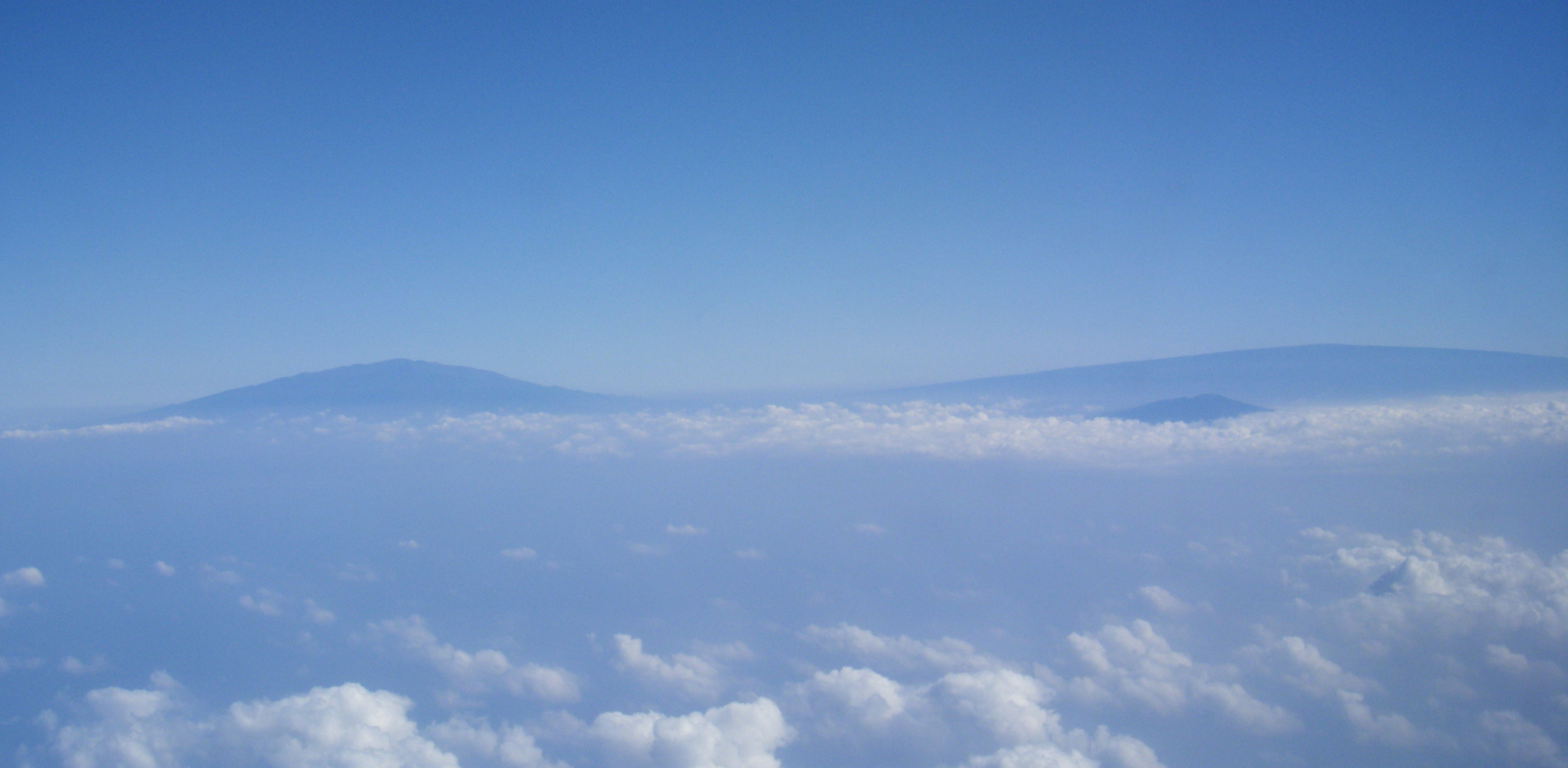 Three of the five Big Island, Hawaii volcanoes. Mauna Kea, Mauna Loa and Hualalai.